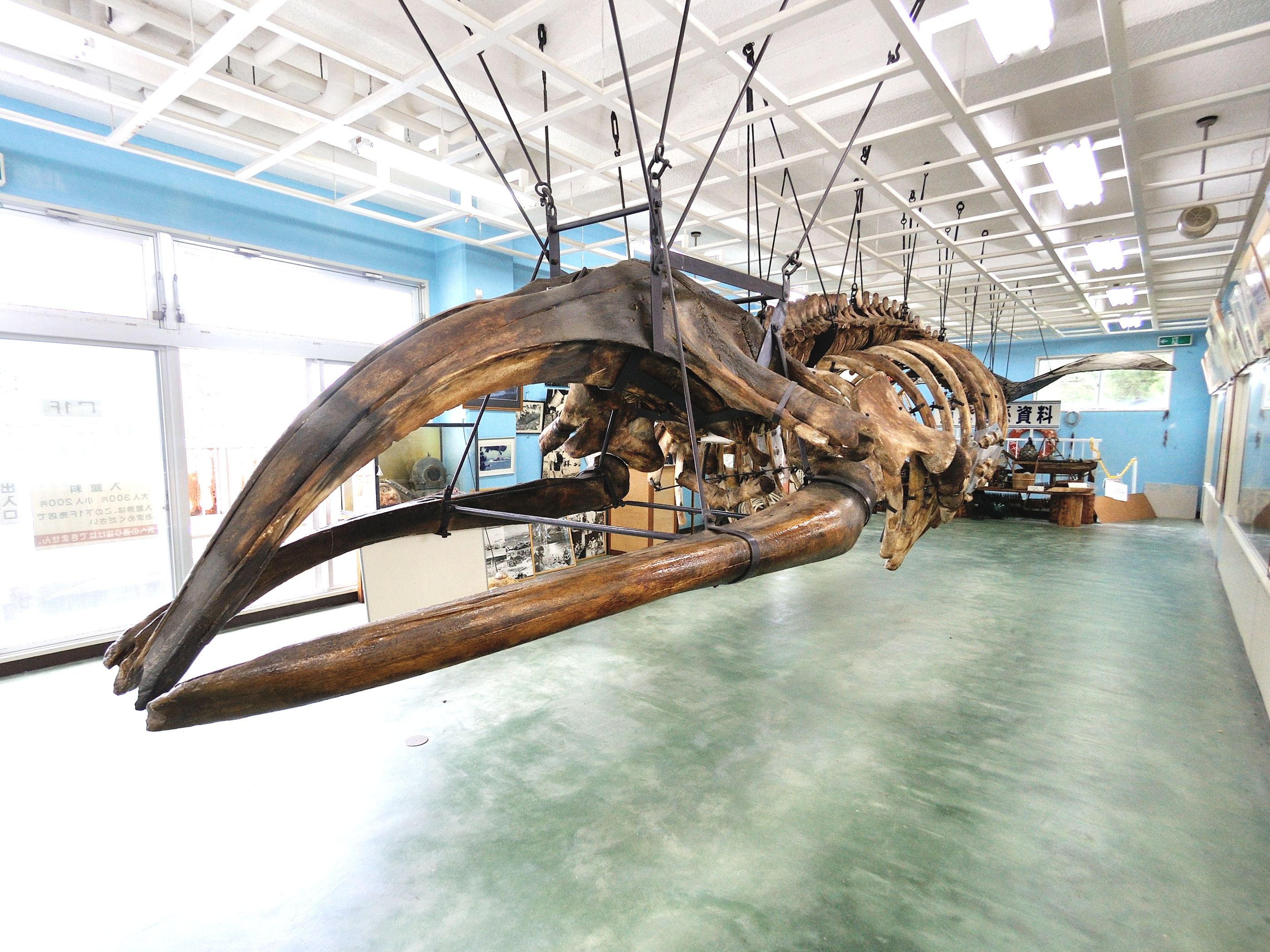 Photograph of Kumomi Whale Museum, North Pacific right whale skeletal preparations. address 387 Kumomi, Matsuzaki Town, Kamo District, Shizuoka Prefecture, Japan photo date October 12, 2012